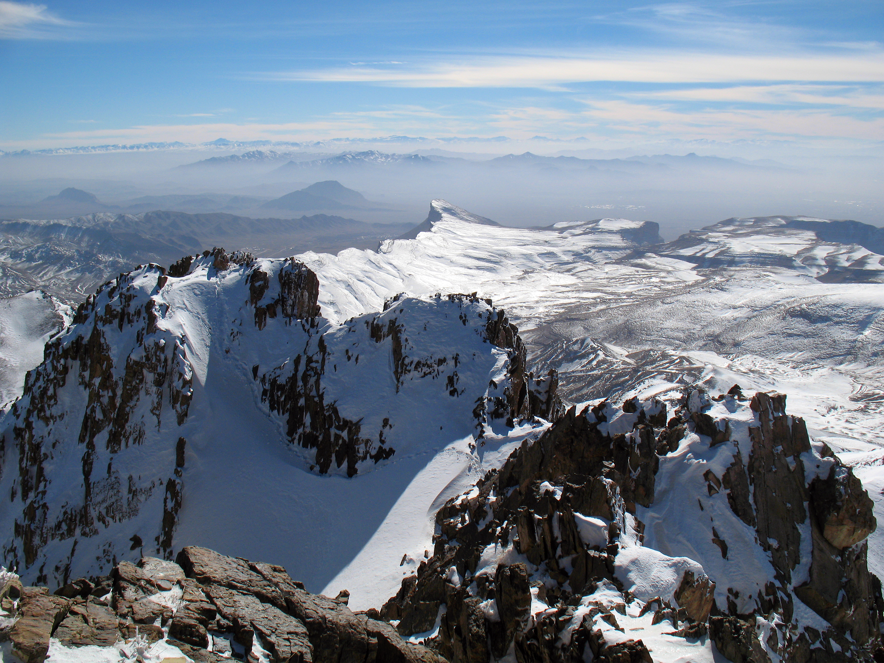 om Province (Persian: استان قم, Ostān-e Qom) is one of the 31 provinces of Iran with 11,237 km², covering 0.89% of the total area in Iran. It is in the north of the country, and its provincial capital is the city of Qom. Acèh: Propinsi Qom nakeuh saboh propinsi nyang na di Iran.